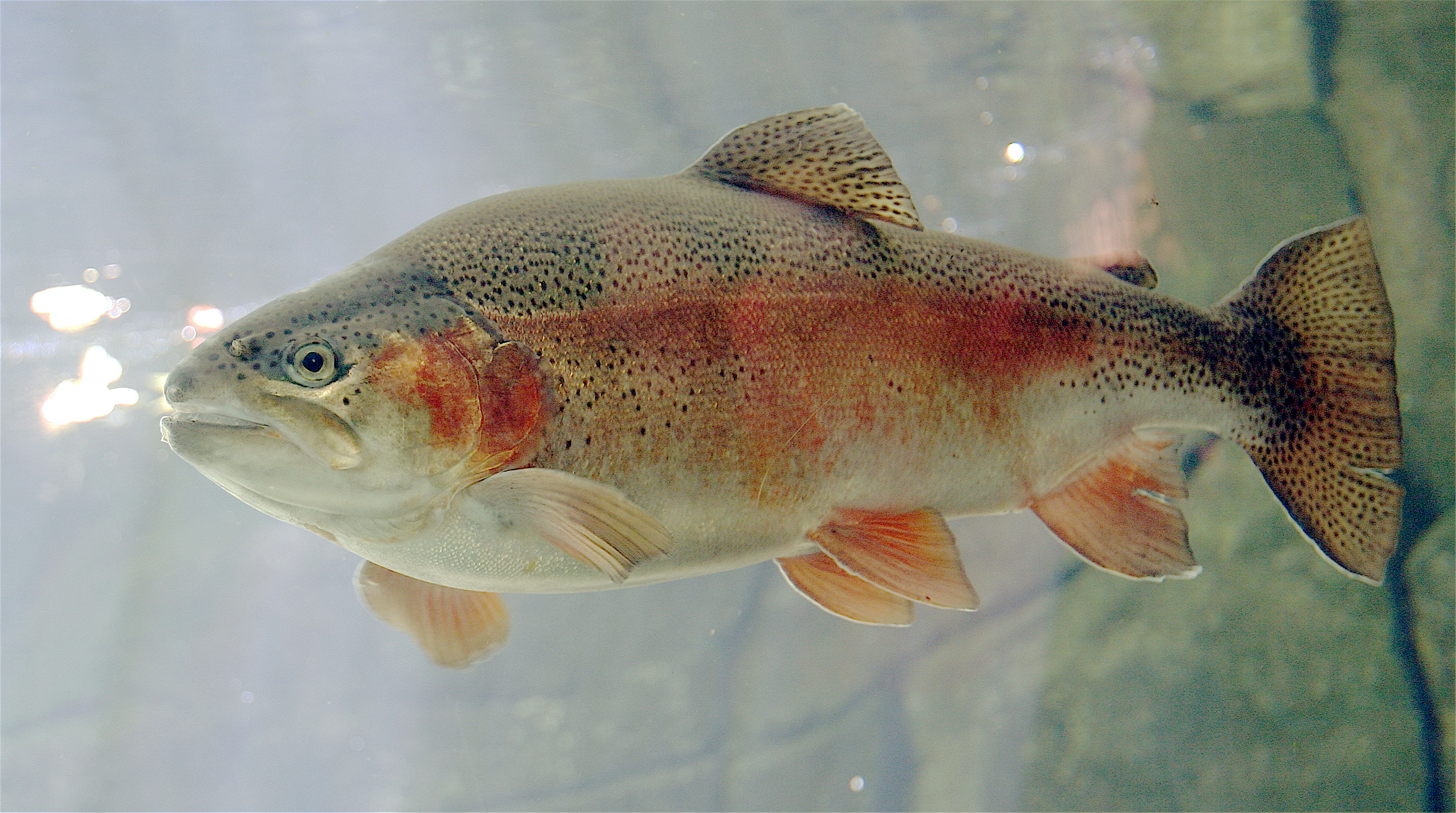 Steelhead (Oncorhynchus mykiss) in the Oregon Zoo